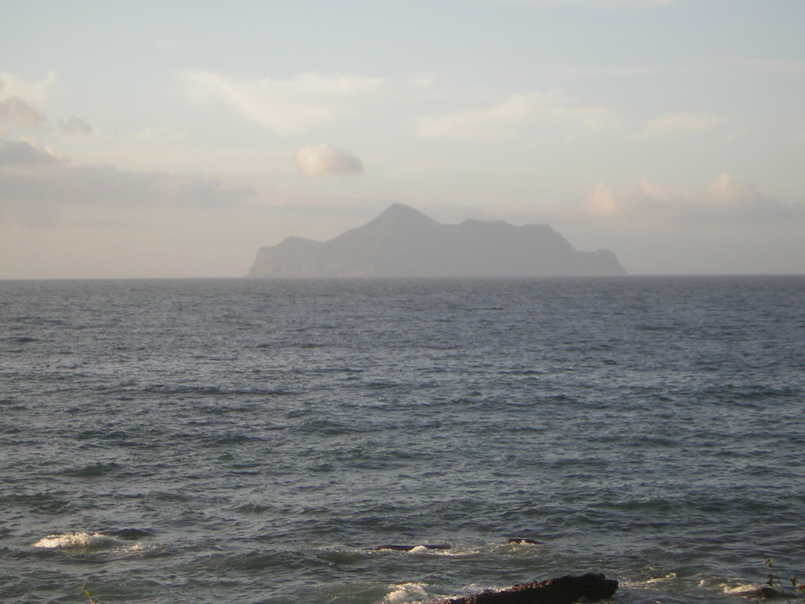 View of Gueishan Island at Dasi Station of Taiwan Railway Administration.